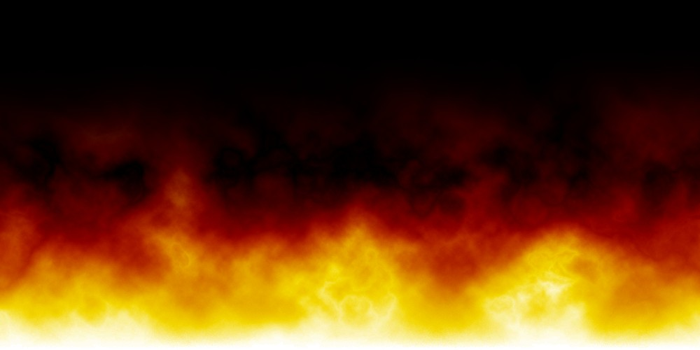 A fire texture made with Perlin noise. An absolute value of a 2D Perlin noise function (various shades of gray) was "covered" with a black-to-transparent gradient. Then the colors were changed so that white areas remained white, light gray areas turned yellow, and dark gray turned red.